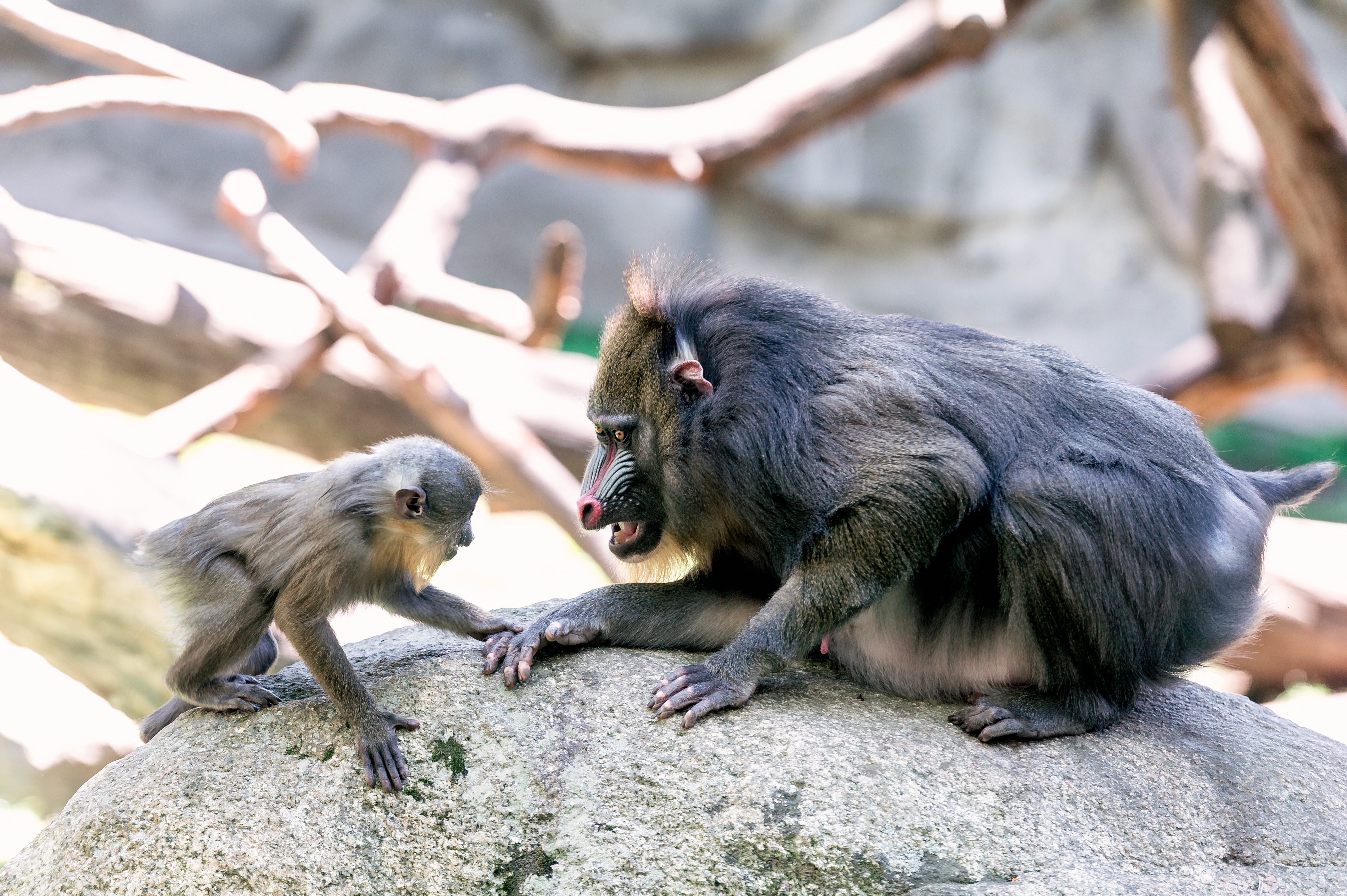 Mandrill Mom Playing With Baby